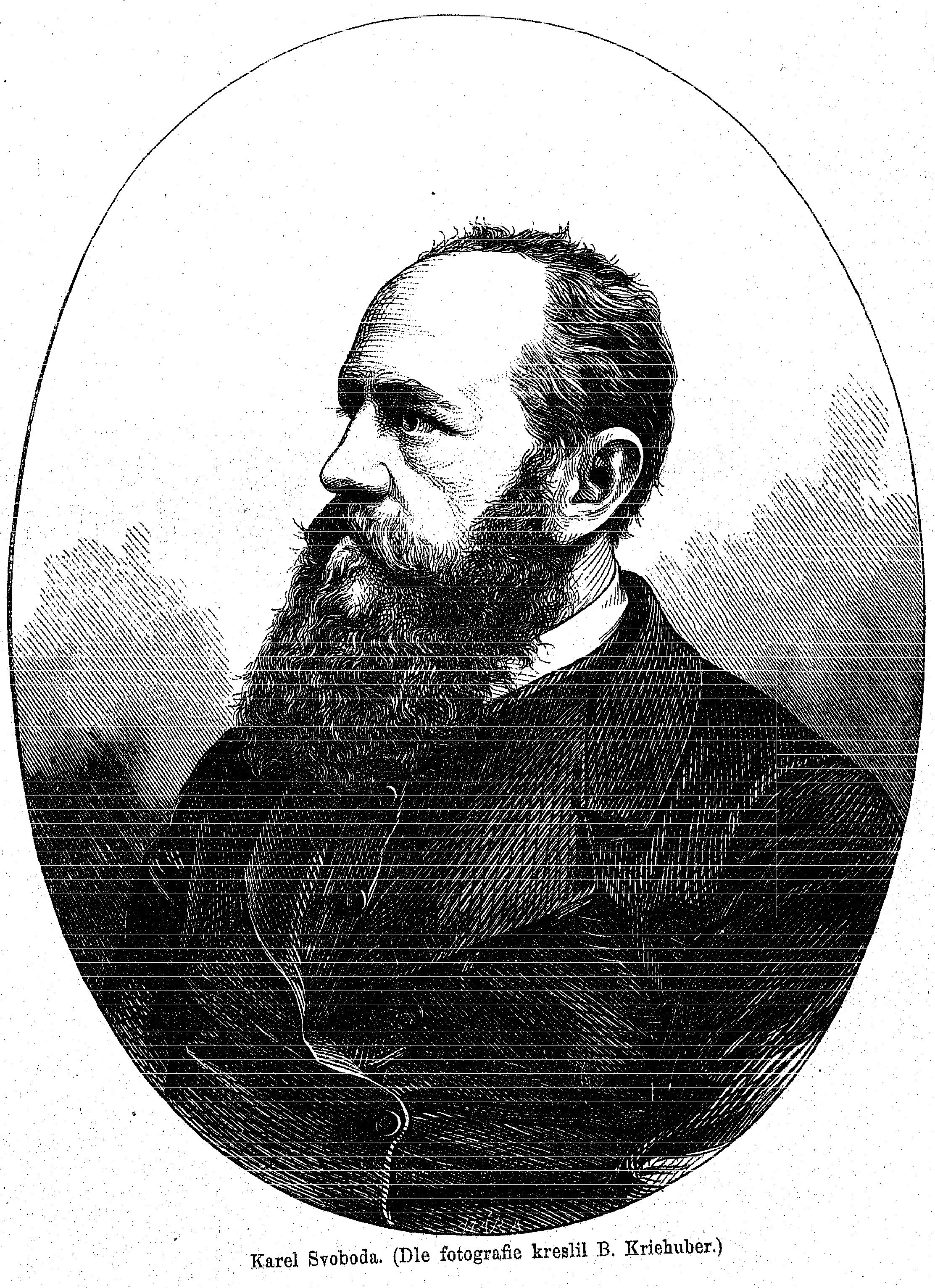 Portrait of Karel Svoboda (1824 - 1870), Czech painter